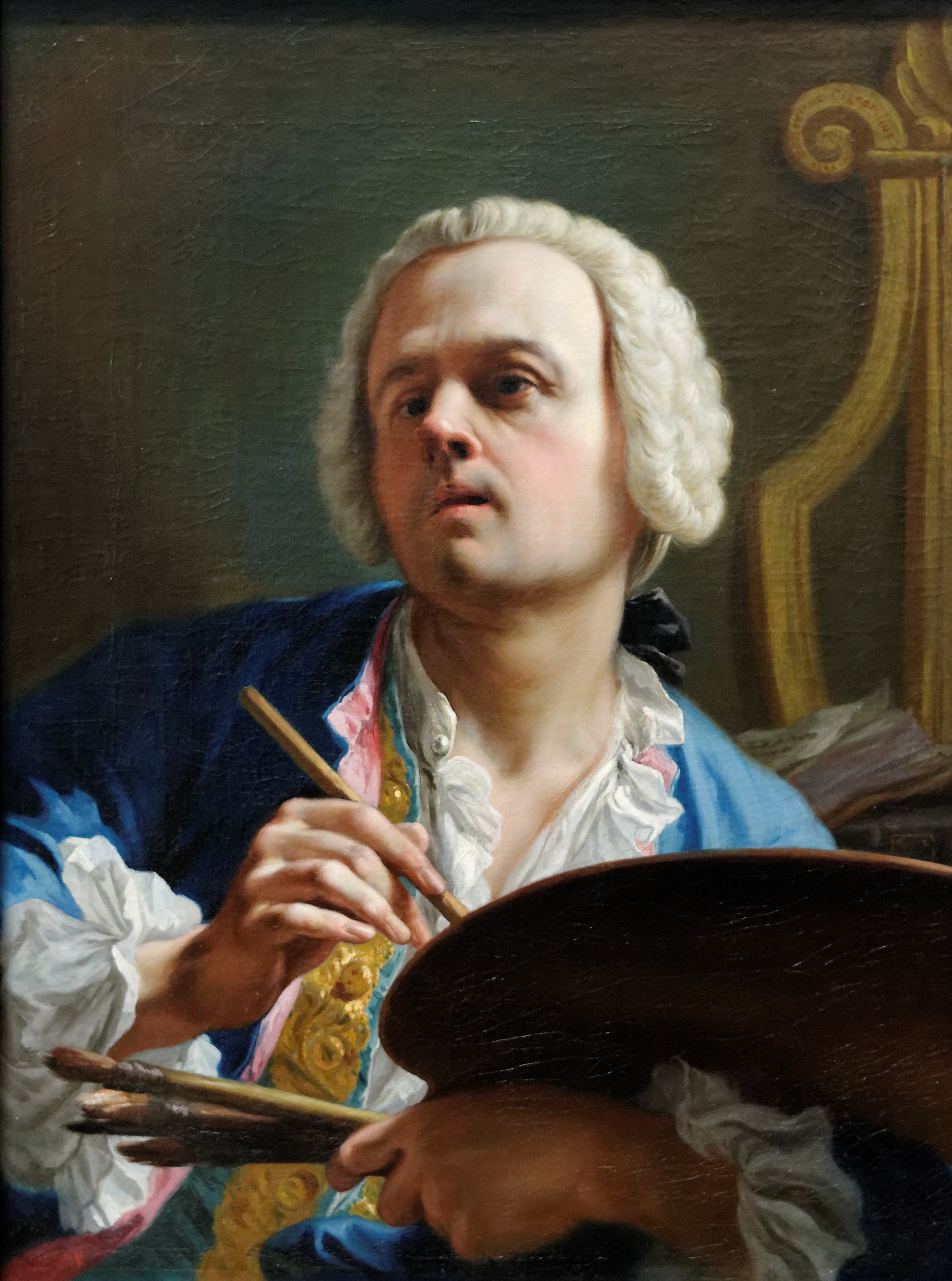 The artist portrays himself in elegant, albeit casual clothes while painting. We see him at an angle from below: this perspective and the position of the head done in such a way as almost to conceal his squint, seem to renforce his spontaneity. Notheless, the artist is posing: both the lyre, Apollo's instrument and symbol of poetry, and the book in the background point to Cignaroli's ambitions as a poet ant to his elevated social status